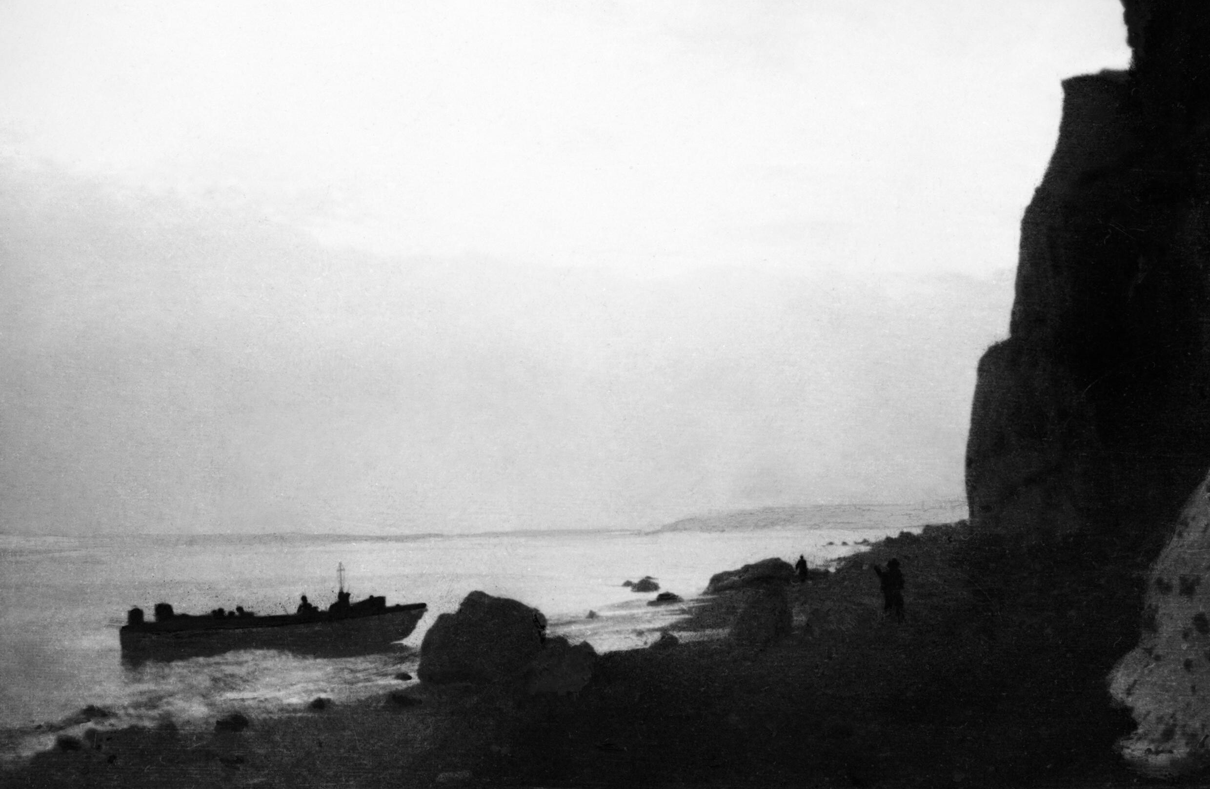 Landing craft of No 4 Commando running in to land at Vasterival on the right flank of the main assault at Dieppe. The unit achieved its objective, the destruction of the 'Hess' Battery in a copybook action, the only success of the raid.